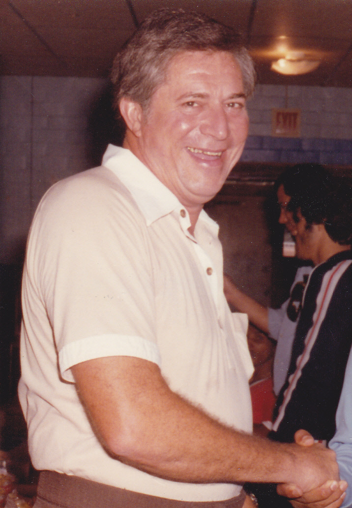 Joe McLaughlin (sportswriter)